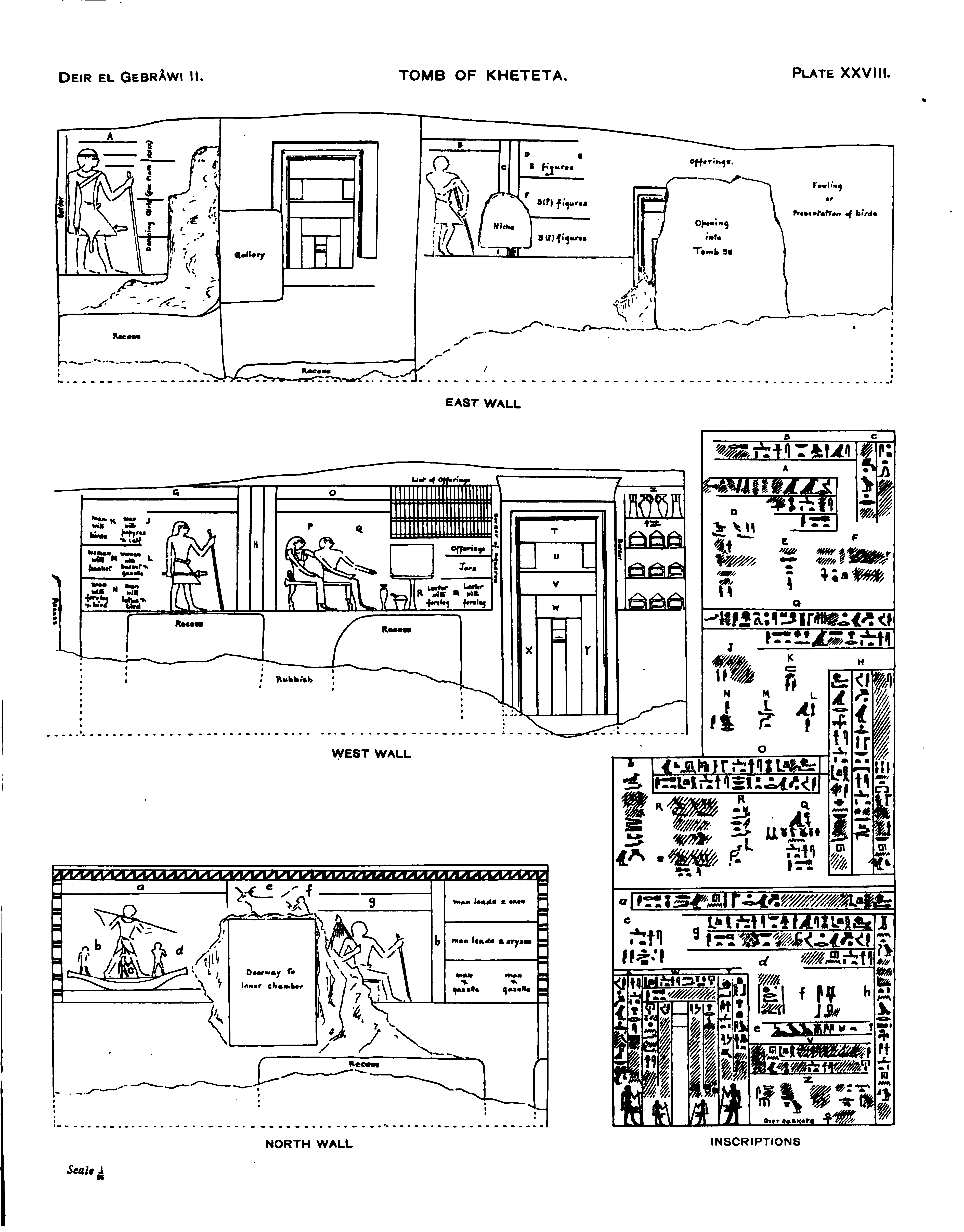 Deir el-Gebrawi rock tomb N39 (Henqu I)